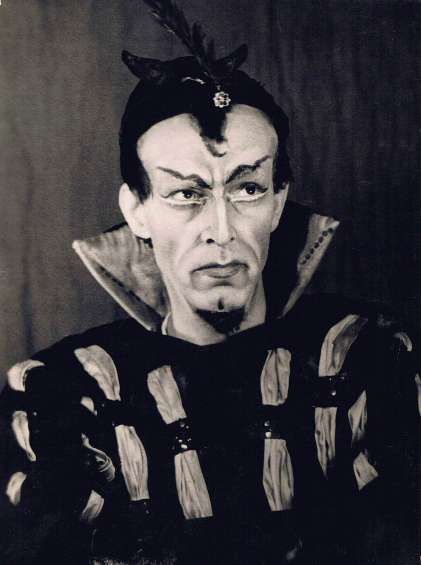 Georgiy Petrov. Aria Mephistopheles "Le veau d'or" from opera Faust, Gounod